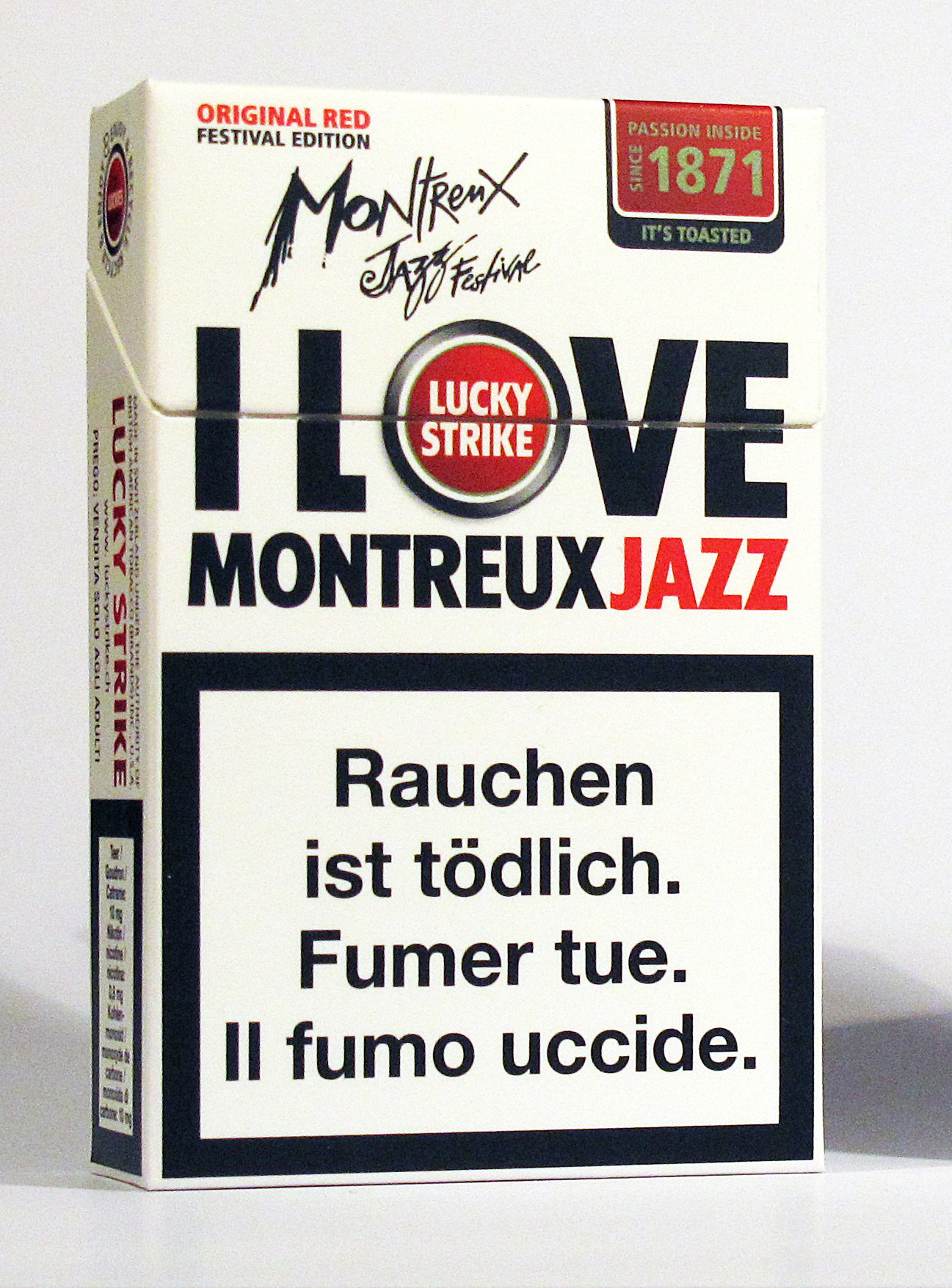 Pack of Lucy Strike cigarettes, special edition for Montreux Jazz Festival 2012, sponsored by British American Tobacco (BAT)